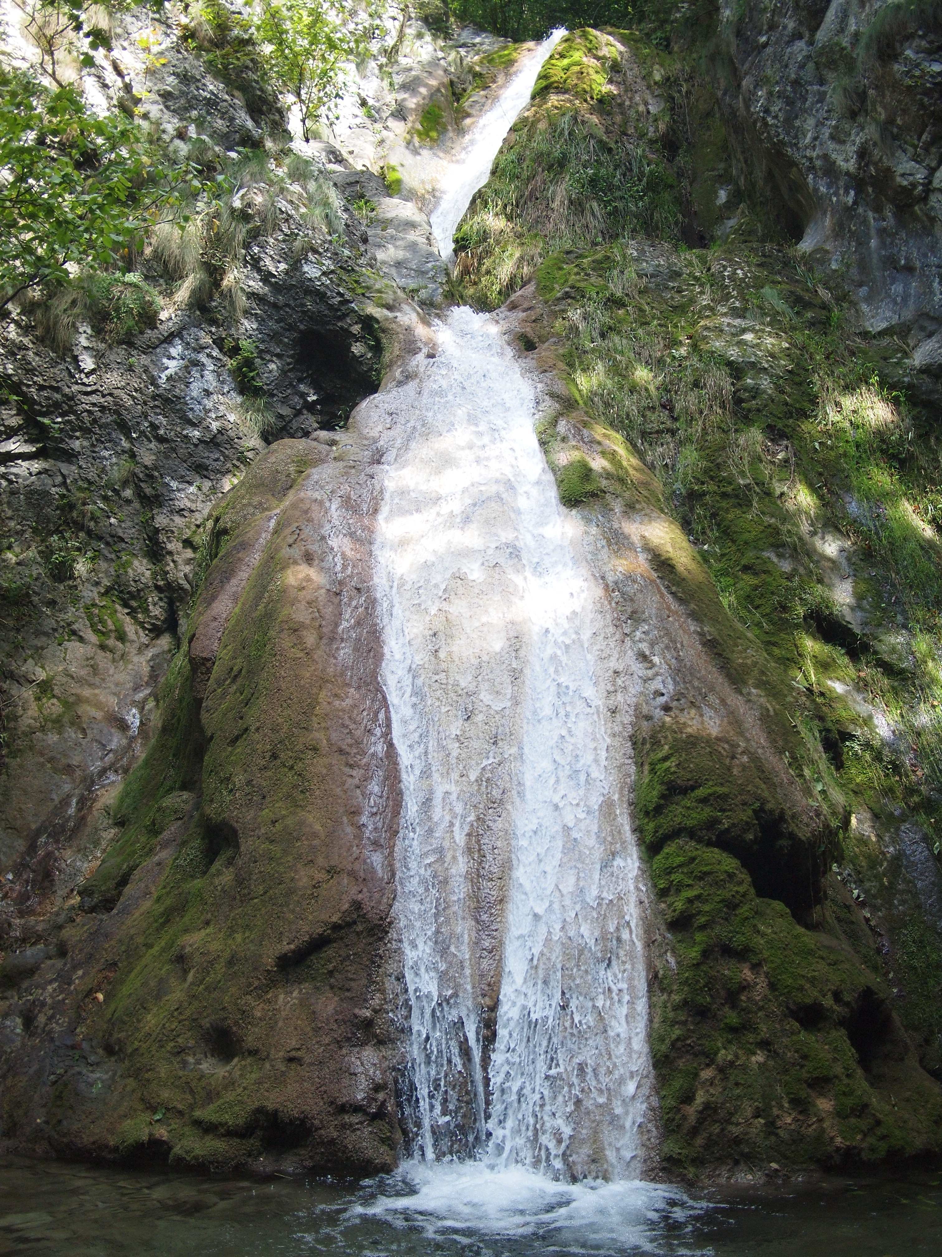 Șușara waterfall